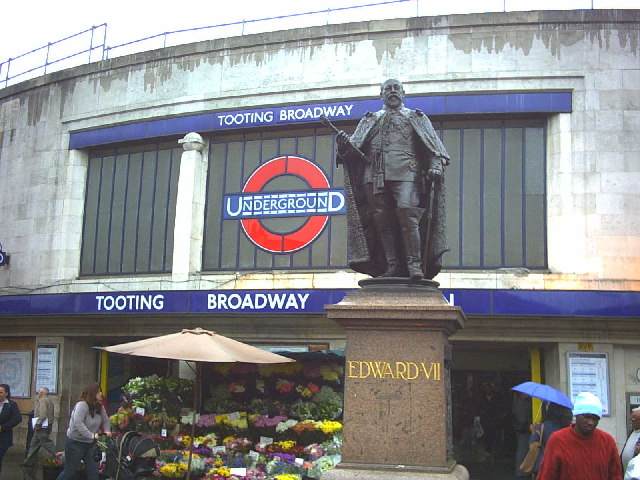 Edward VII statue outside Tooting Broadway tube station, junction A24 and A217. Inscription on the base says "Erected by public subscription 1911".